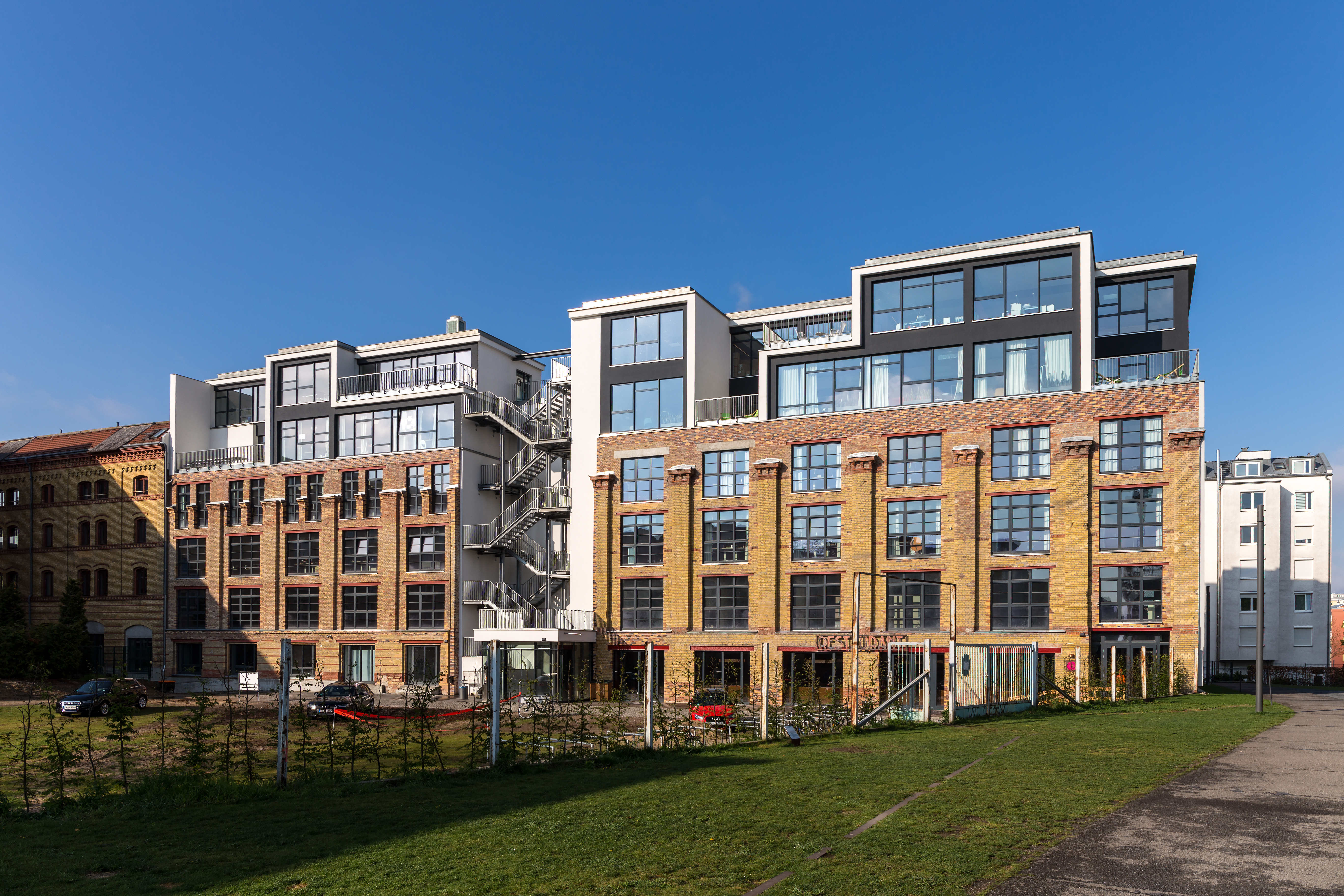 Factory Berlin is a campus for founders located in Berlin-Mitte.